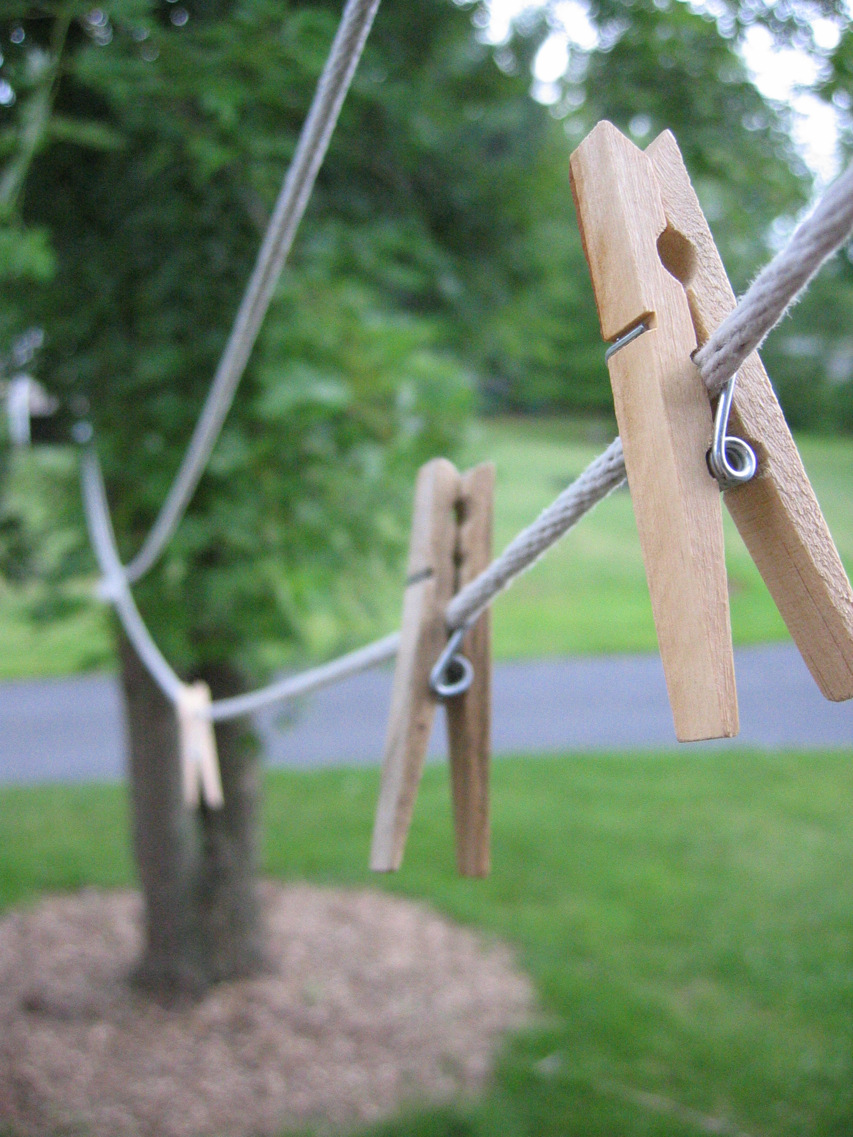 A clothes line with some pegs (clothespins) nearby.